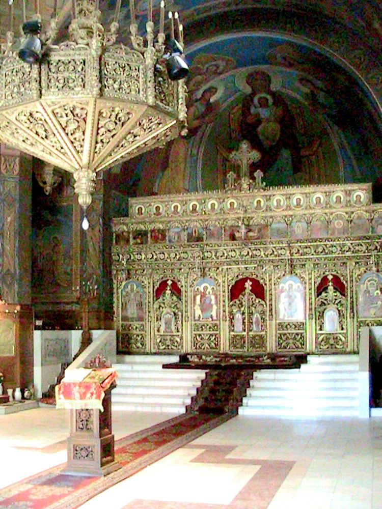 Orthodox Church "Nativity of the Blessed Virgin Mary", Iosefin, Timişoara.